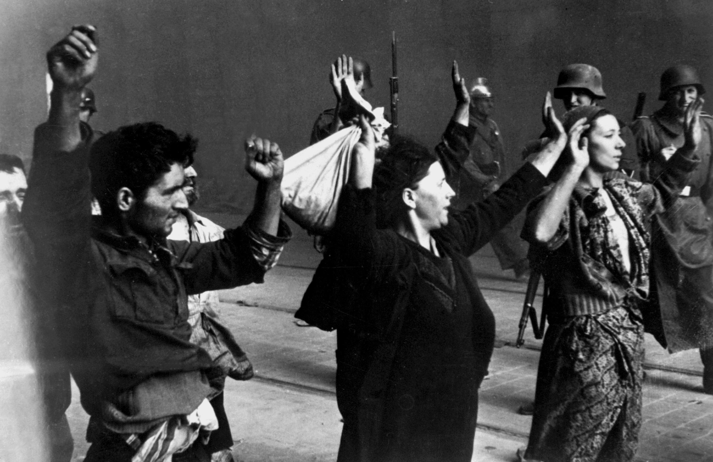 Stroop Report: a report written by Jürgen Stroop for Heinrich Himmler about liquidation of Warsaw Ghetto in May 1943.